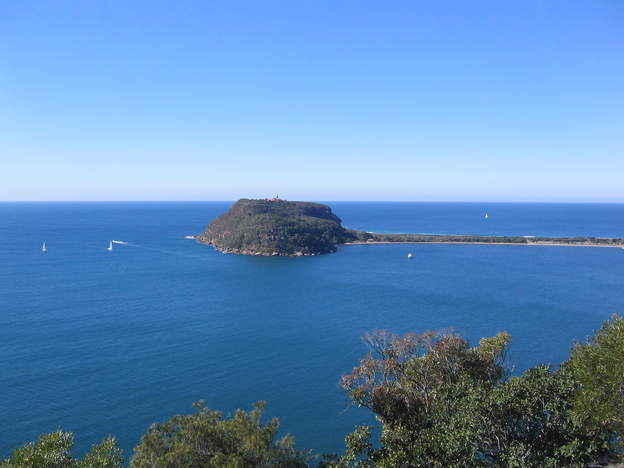 This photograph is of Barrenjoey Head, just north of Sydney, Australia. Strictly speaking, the side of the peninsula closest to the camera is Shark Point, while the side away from the camera and the peak is Barrenjoey Head[1][2]. It was taken from the West Head Lookout. Barrenjoey Lighthouse is visible at the peak. References ↑ Gregory's Street Directory, 59th Edition 1995, Maps 109 and 110 ↑ Sydway street directory, 11th edition 2006, Map 160 Category:Images of Sydney